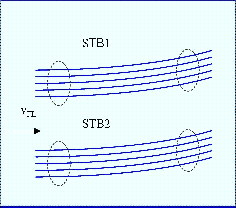 Molecular power. Streamtubes. Describes the hydrodynamics of fluids.